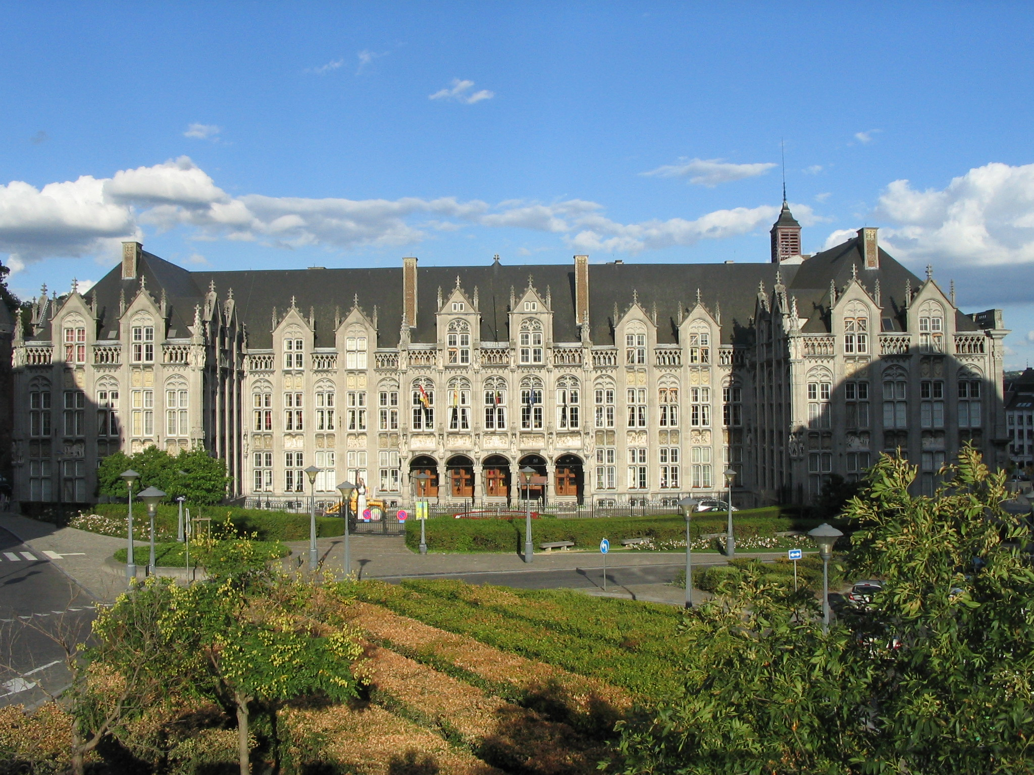 Palais des Princes-Évêques/Palais provincial of Liège